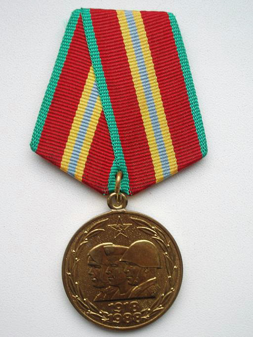 Obverse of the Jubilee Medal "70 Years of the Armed Forces of the USSR".